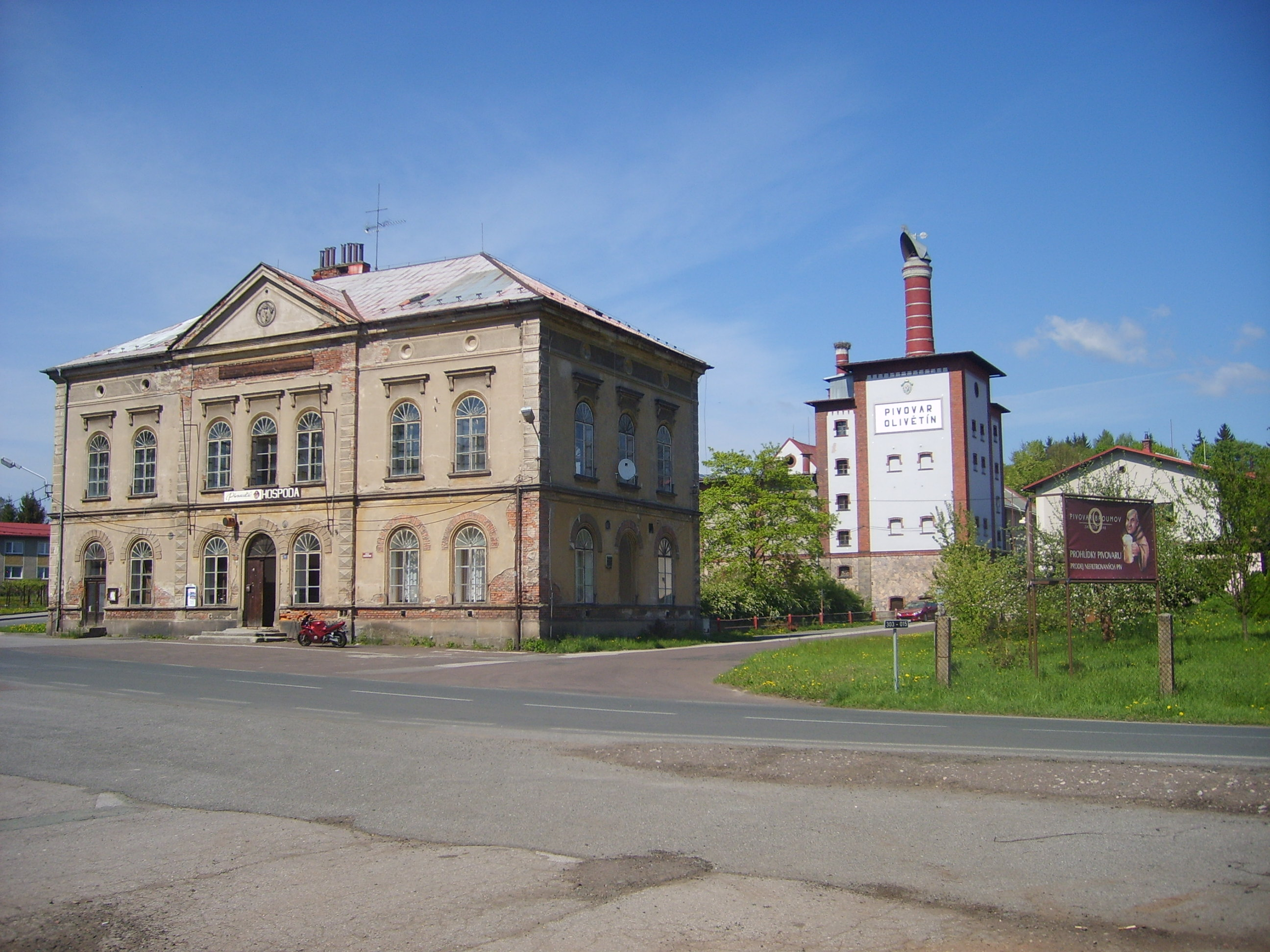 A historical restaurant (left) and a brewery in Olivětín, suburb of Broumov in the Czech Republic.